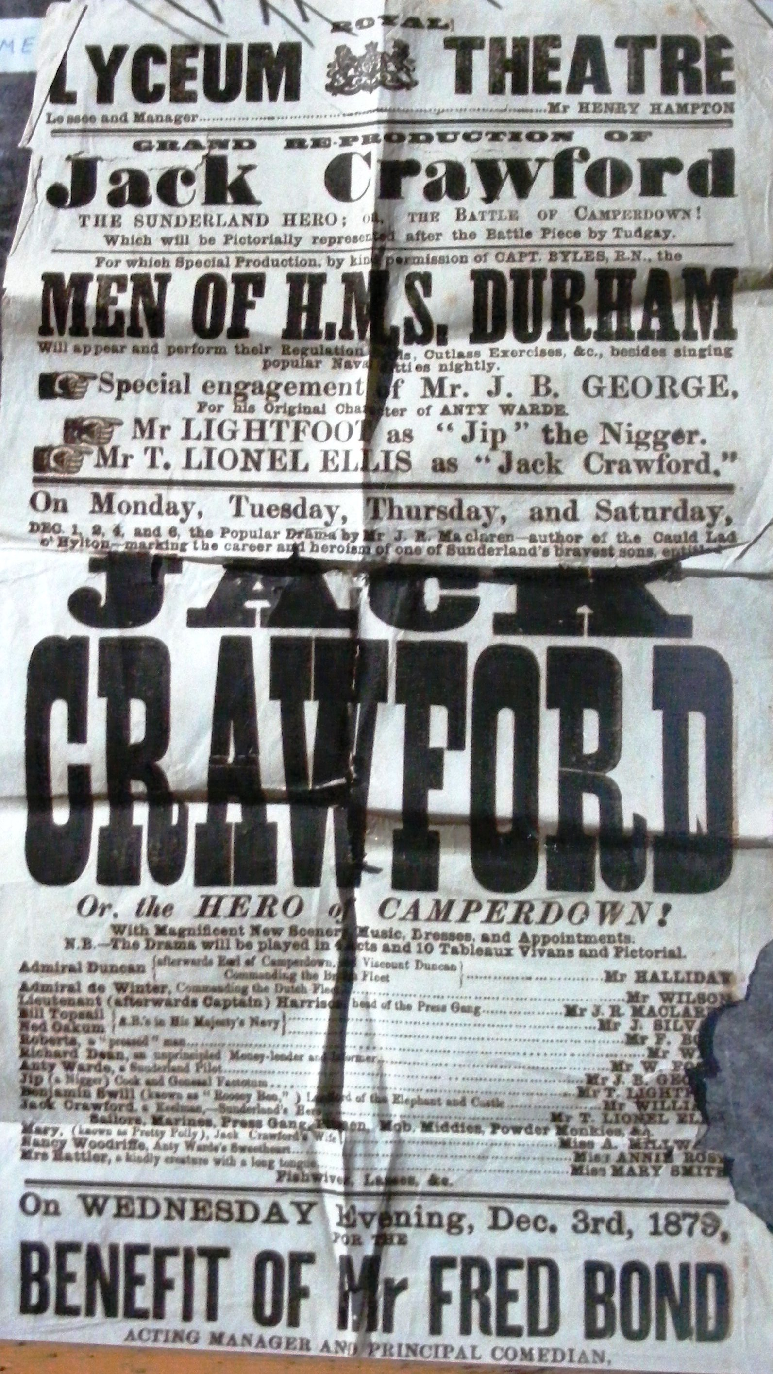 Advertisement for the play at the New Royal Lyceum Theatre, Sunderland, in December 1879